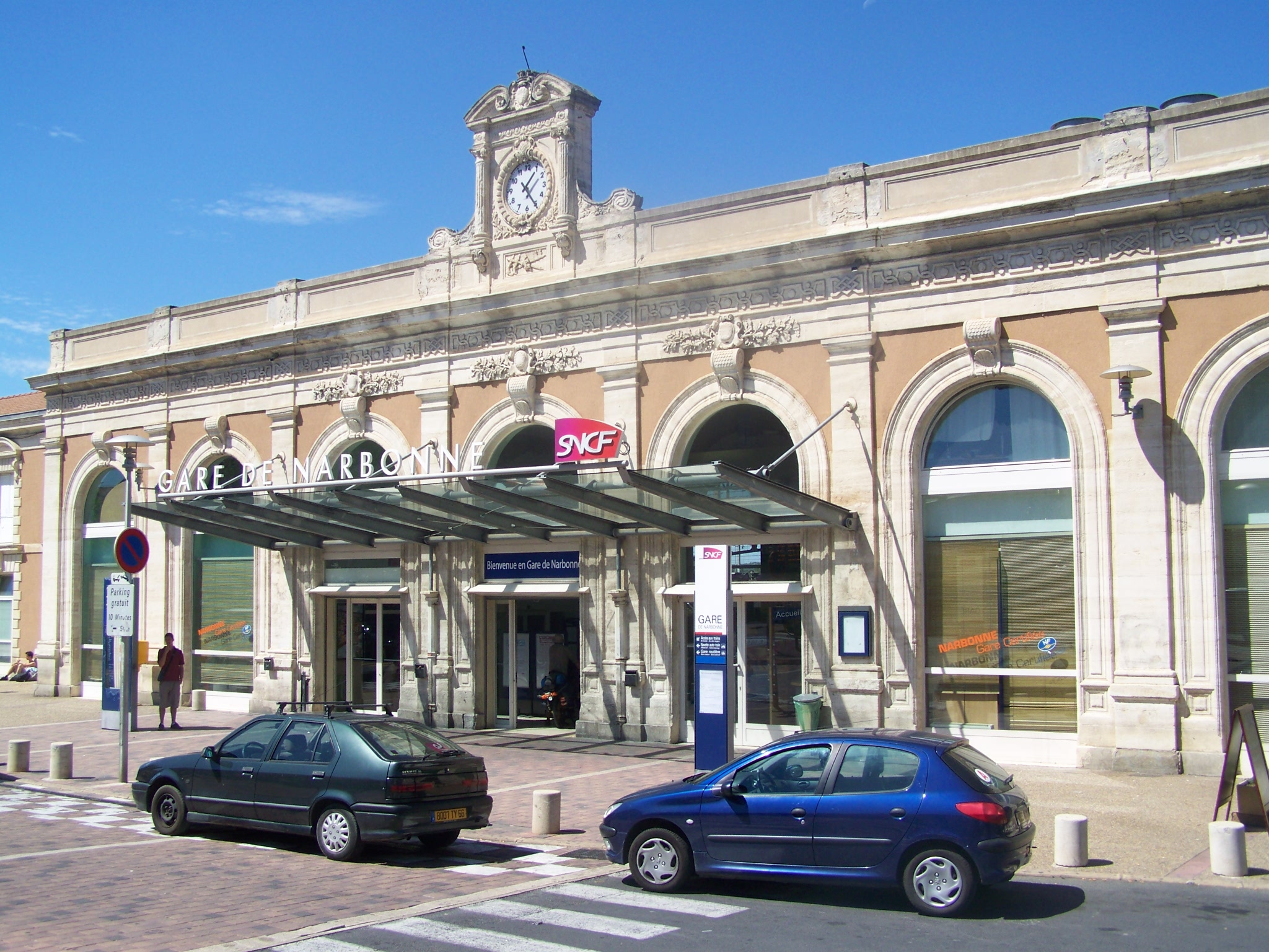 Front of Narbonne railway station, in Aude, France.